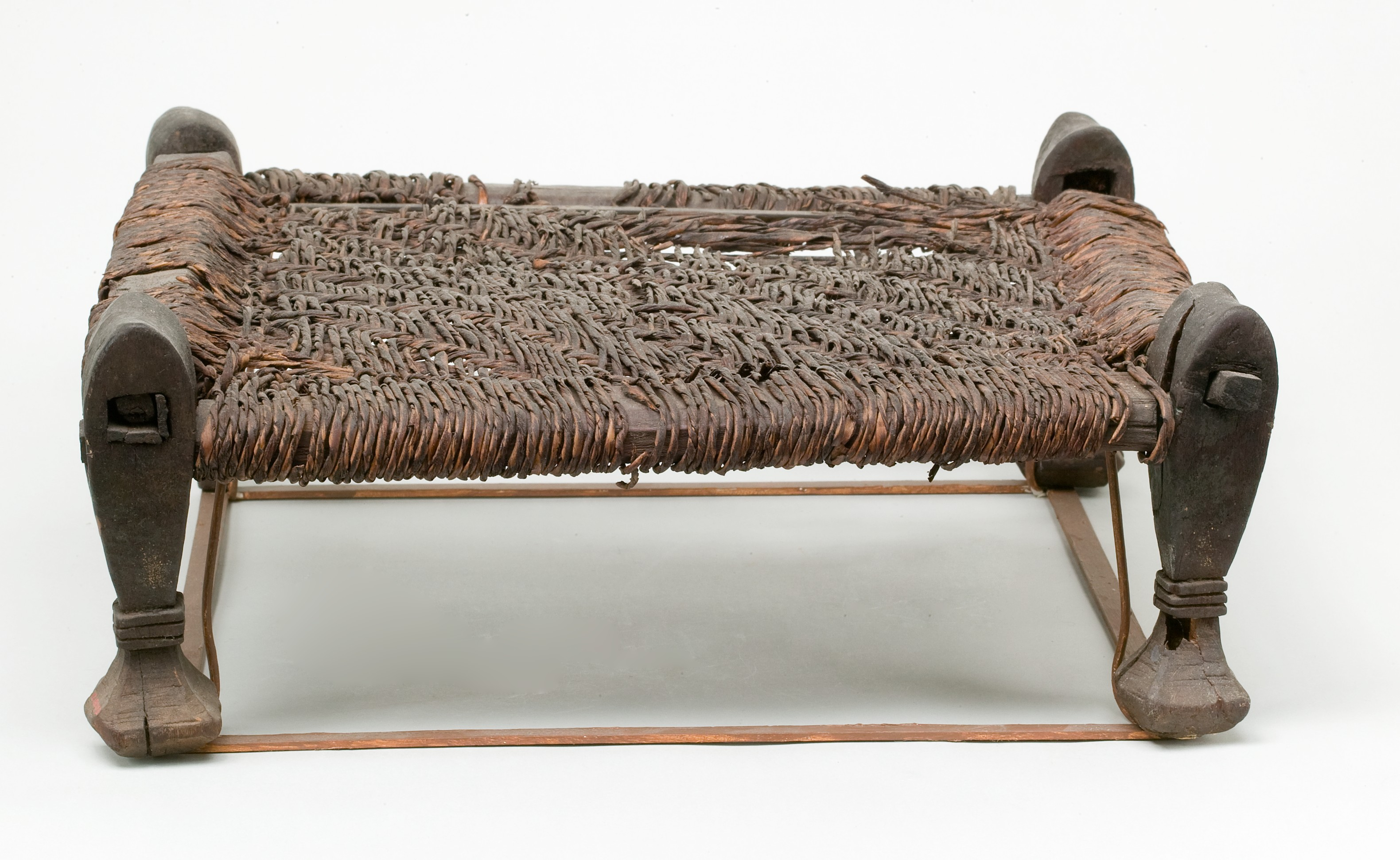 Stool